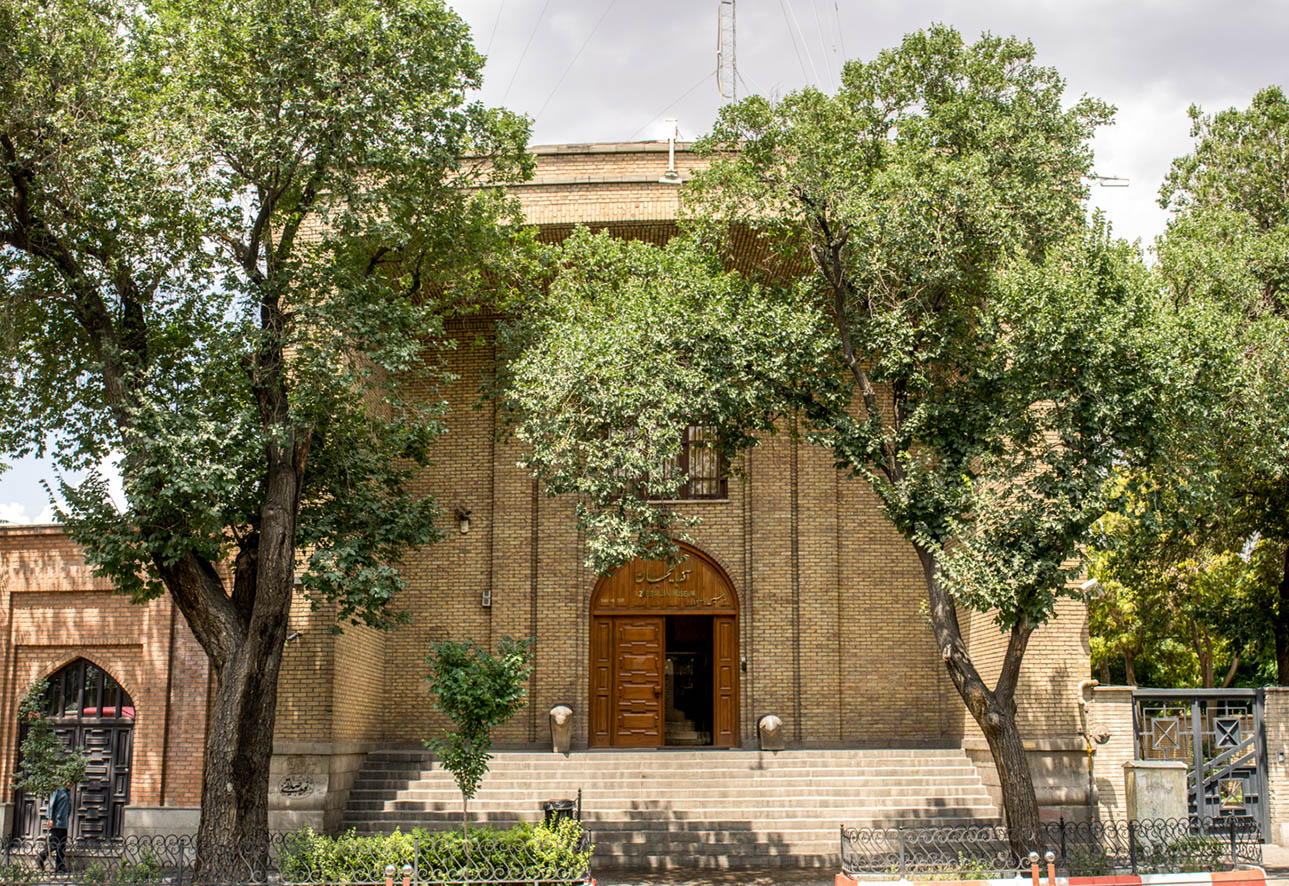 Azerbaijan Museum is home to ancient artifacts, some dates back centuries before Christ